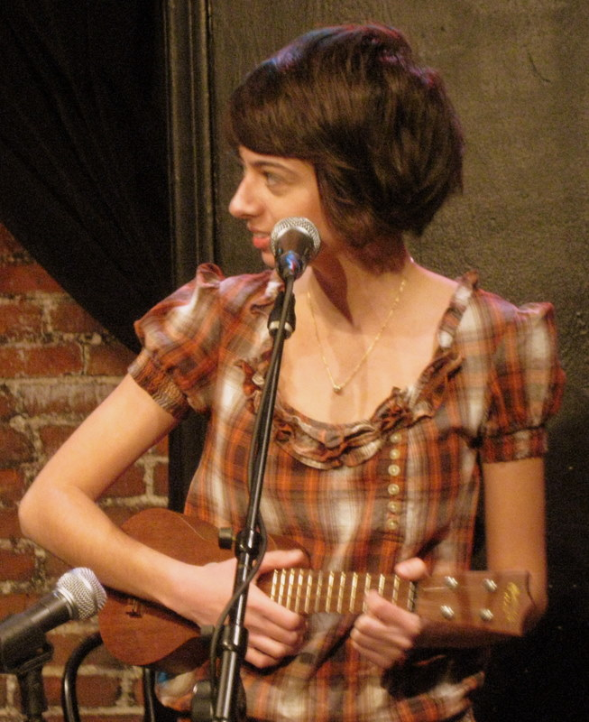 Kate Micucci, performing at the Upright Citizens Brigade Theater in Los Angeles